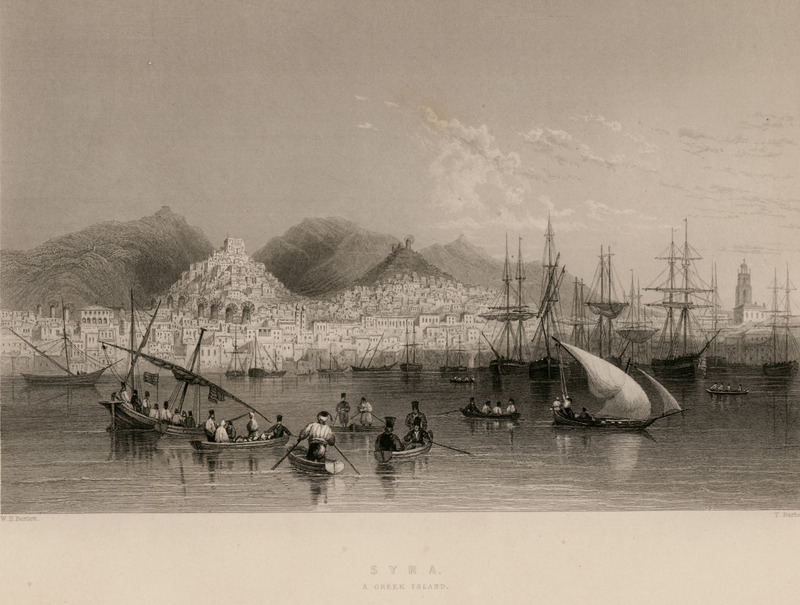 John Carne. Syria, The Holy Land, Asia Minor, &c. Illustrated. In a series of views, drawn from nature by W.H. Bartlett, William Purser, &c., London, Fisher, Son & Co., 1836-1838.